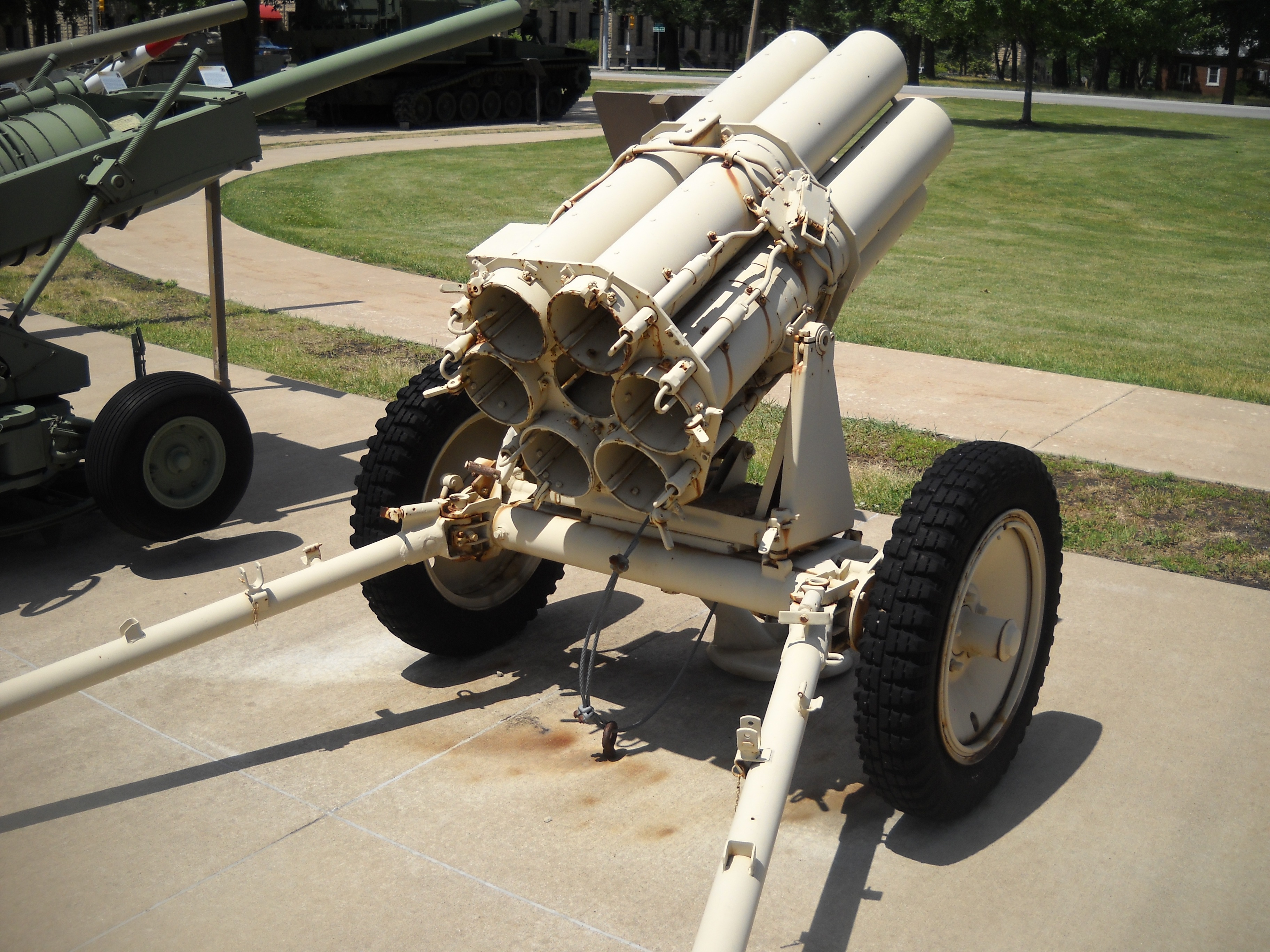 A WWII era German Nebelwerfer 41 150mm multiple rocket launcher viewed from the breach, on display at the Rock Island Arsenal Museum